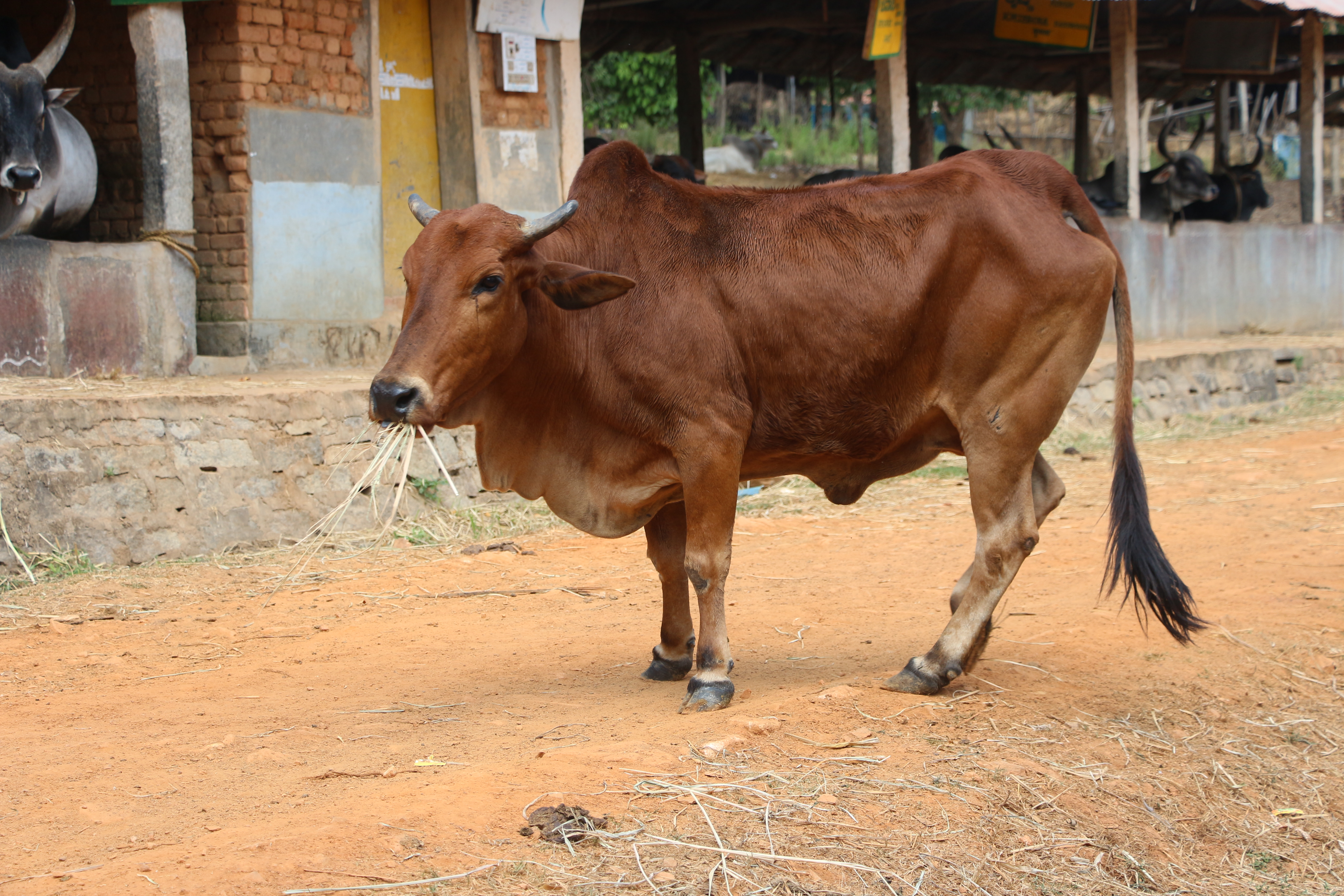 Indian cow breed Sindhi ಕನ್ನಡ: ಭಾರತೀಯ ಗೋತಳಿ ಸಿಂಧಿ